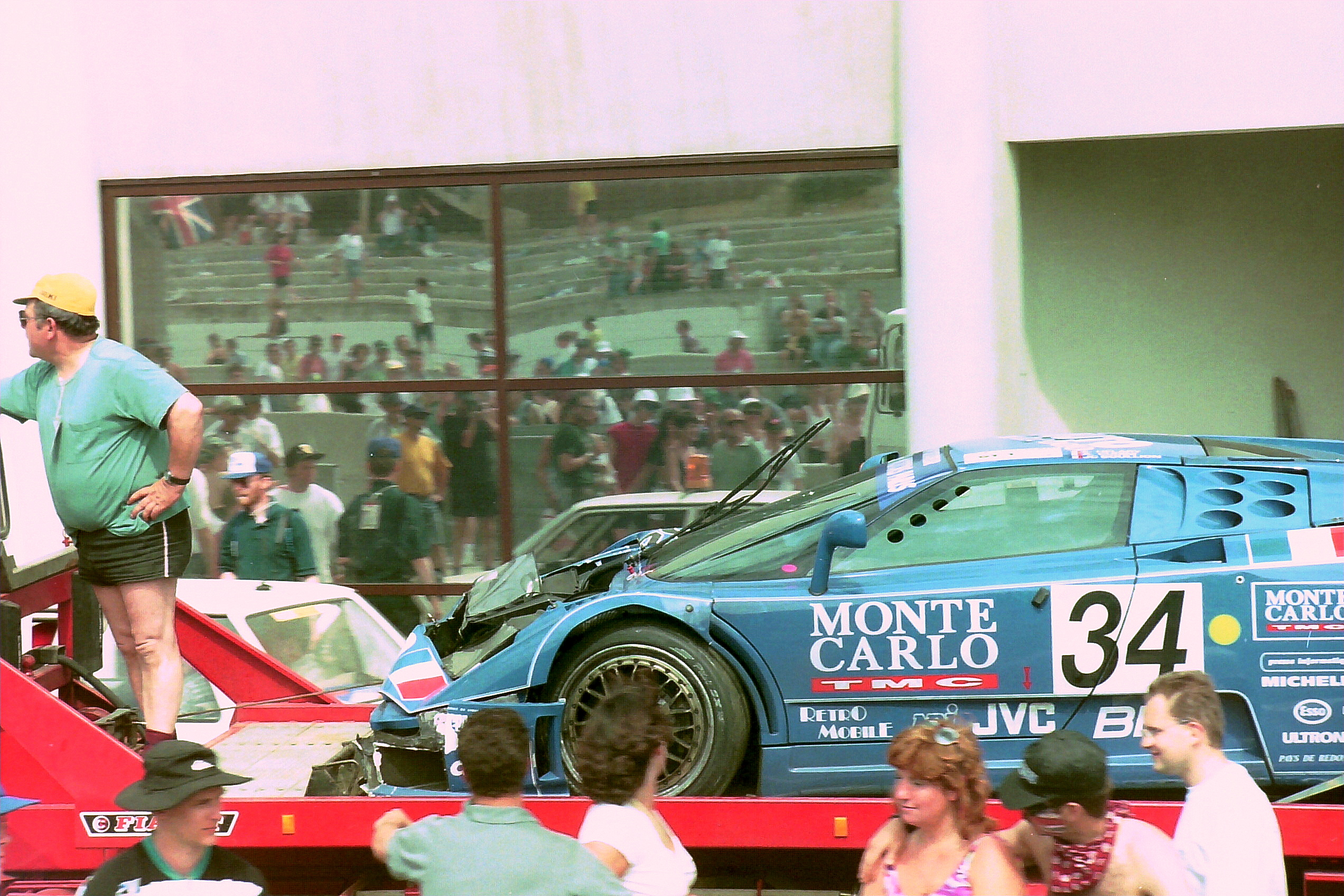 Bugatti EB110 SS - Alain Cudini, Eric Helary & Jean-Christophe Boullion is brought back to the pits after an accident at the 1994 Le Mans